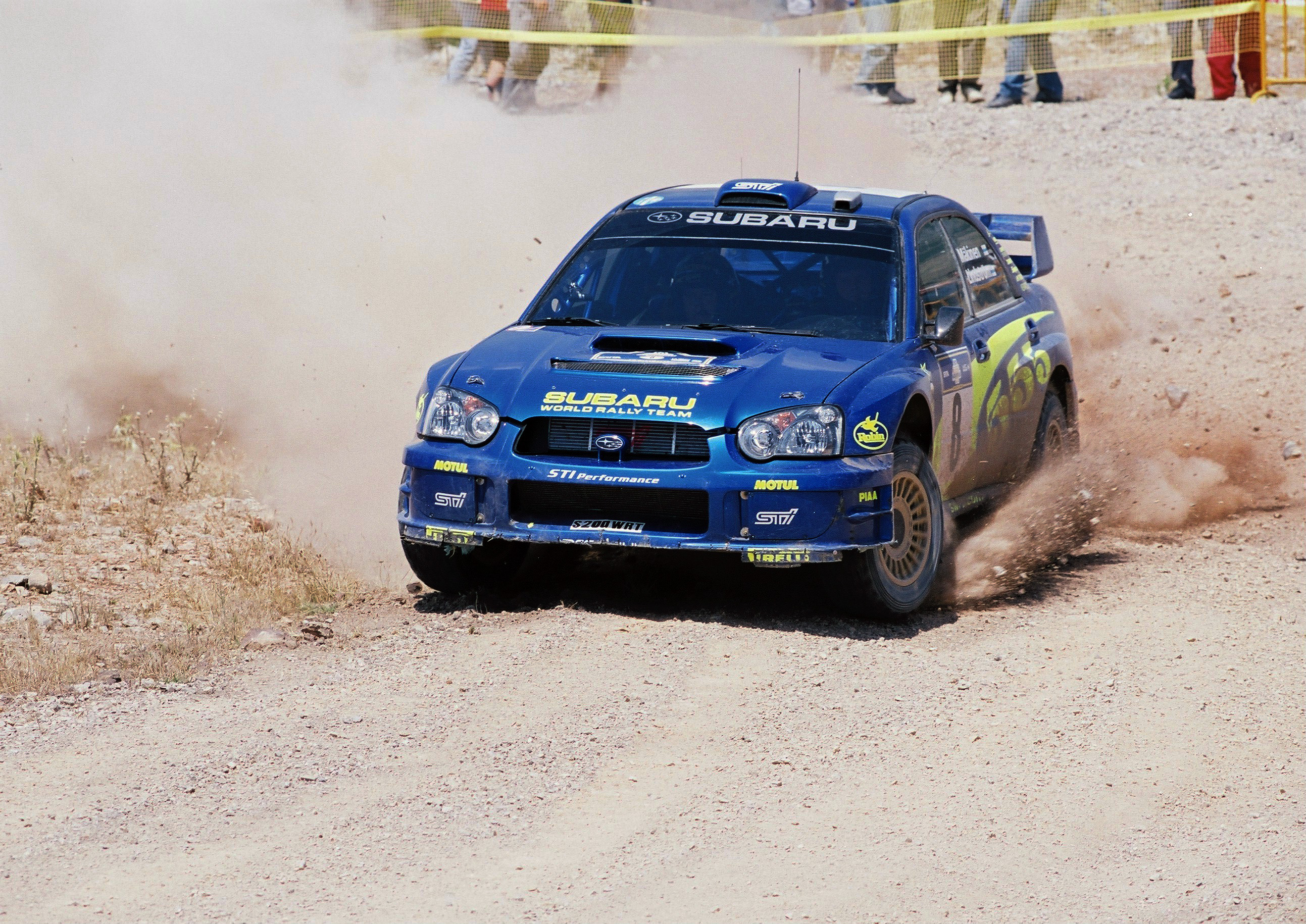 8 T. Mäkinen and K. Lindström in 2003 Acropolis Rally (S.S. ?)